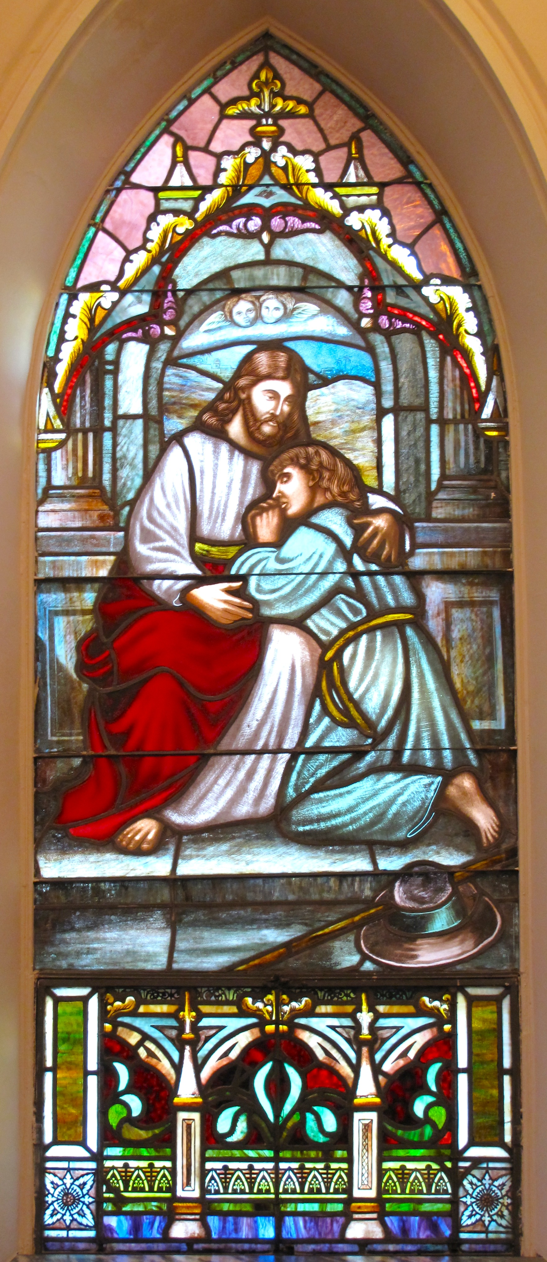 Christ Leaving his Mother window at St. Matthew's Lutheran Church in Charleston, South Carolina. Attributed to the Quaker City Glass Company of Philadelphia, 1912.